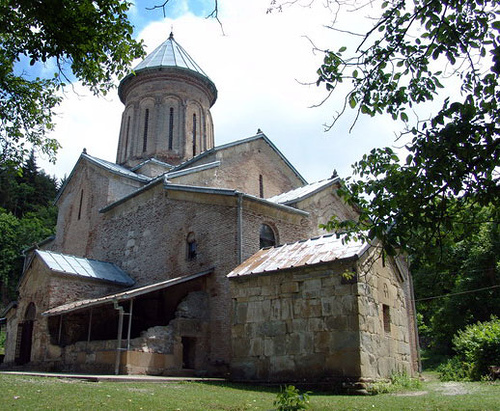 Kintsvisi Monastery in Georgia